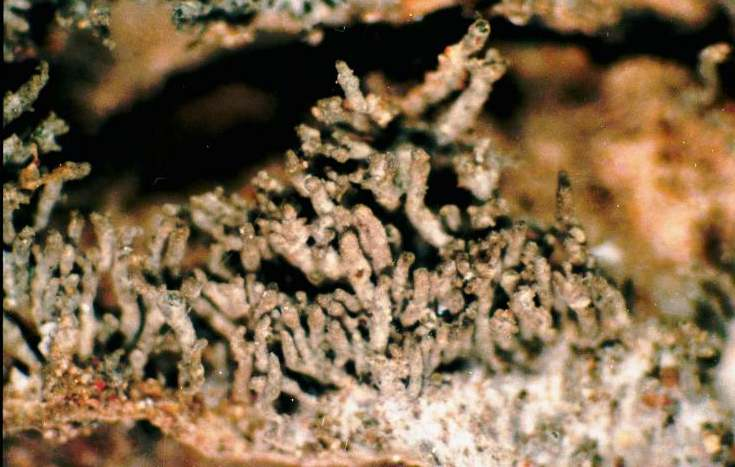 Coccocarpia palmicola (Spreng.) Arv. & D.J. Galloway, 1979 [Syn. Coccocarpia cronia (Tuck.) Vainio, 1915] (photograph of a herbarium specimen taken through a dissecting microscope (x40) showing isidia) Growing on vertical phyllite along road at Spring Creek, Polk County, Tennessee, USA; collected and identified by Allen C. Skorepa (No. 6382, 22 Mar 1971); specimen is now in the Lichen Herbarium of the New York Botanical Garden.